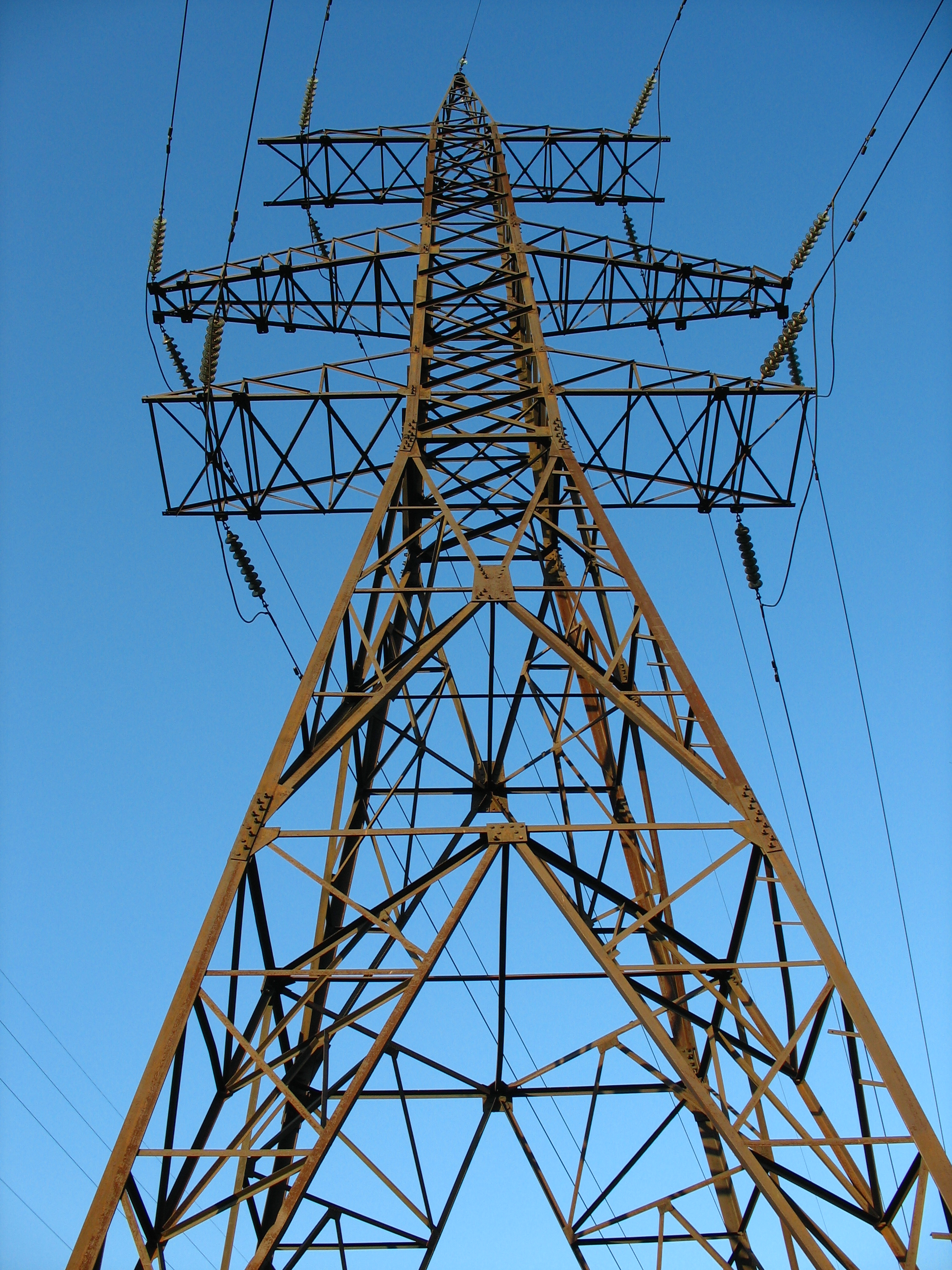 Transmission tower (anchor tower) of a high-voltage overhead power line (150 kV) in Dnipro, Ukraine